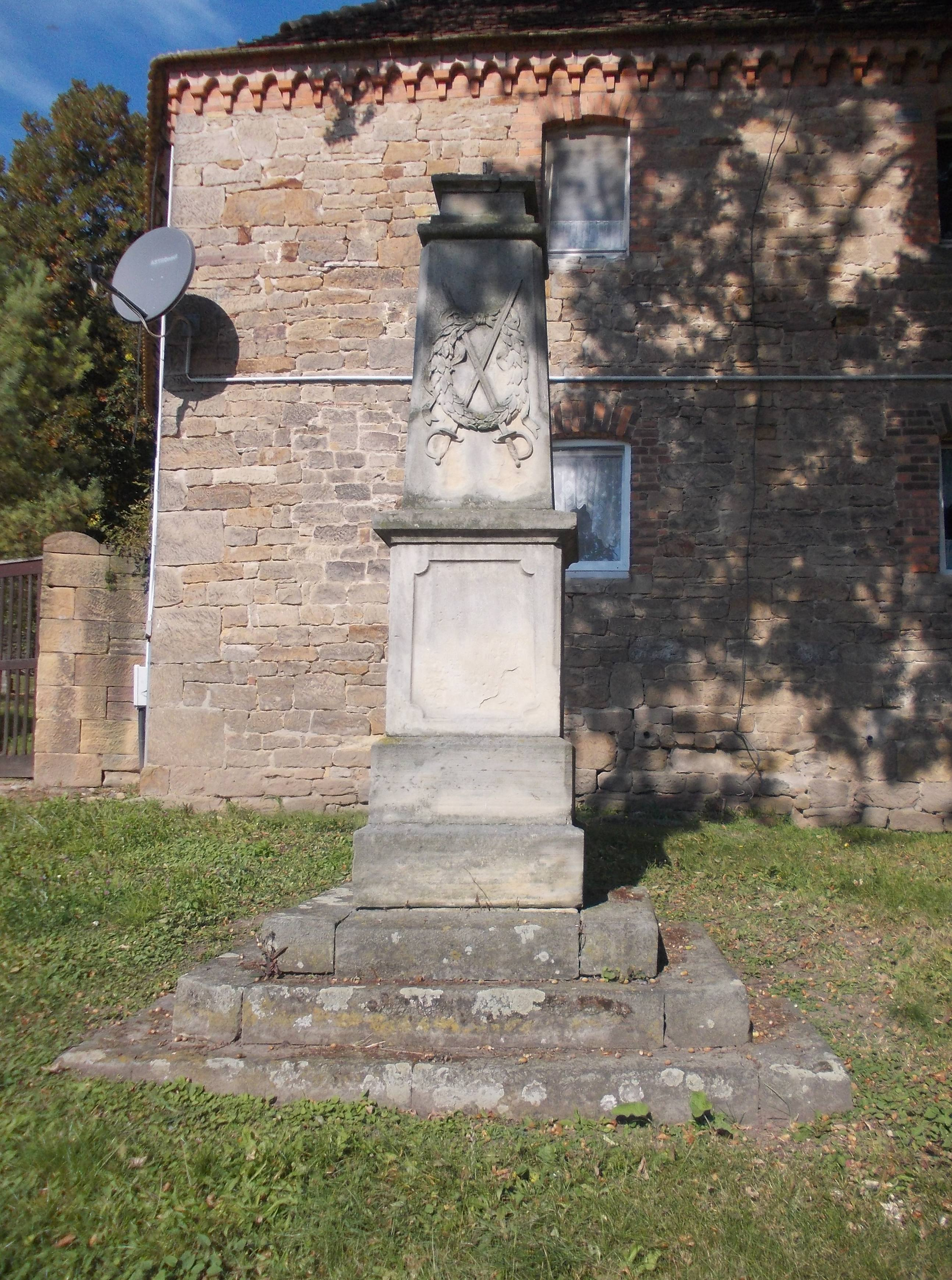 Memorial in Front of the church in Kleineichstädt (Querfurt, district: Saalekreis, Saxony-Anhalt)